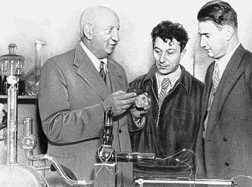 Abram Ioffe, Abram Alikhanov and Igor Kurchatov in early 1930s